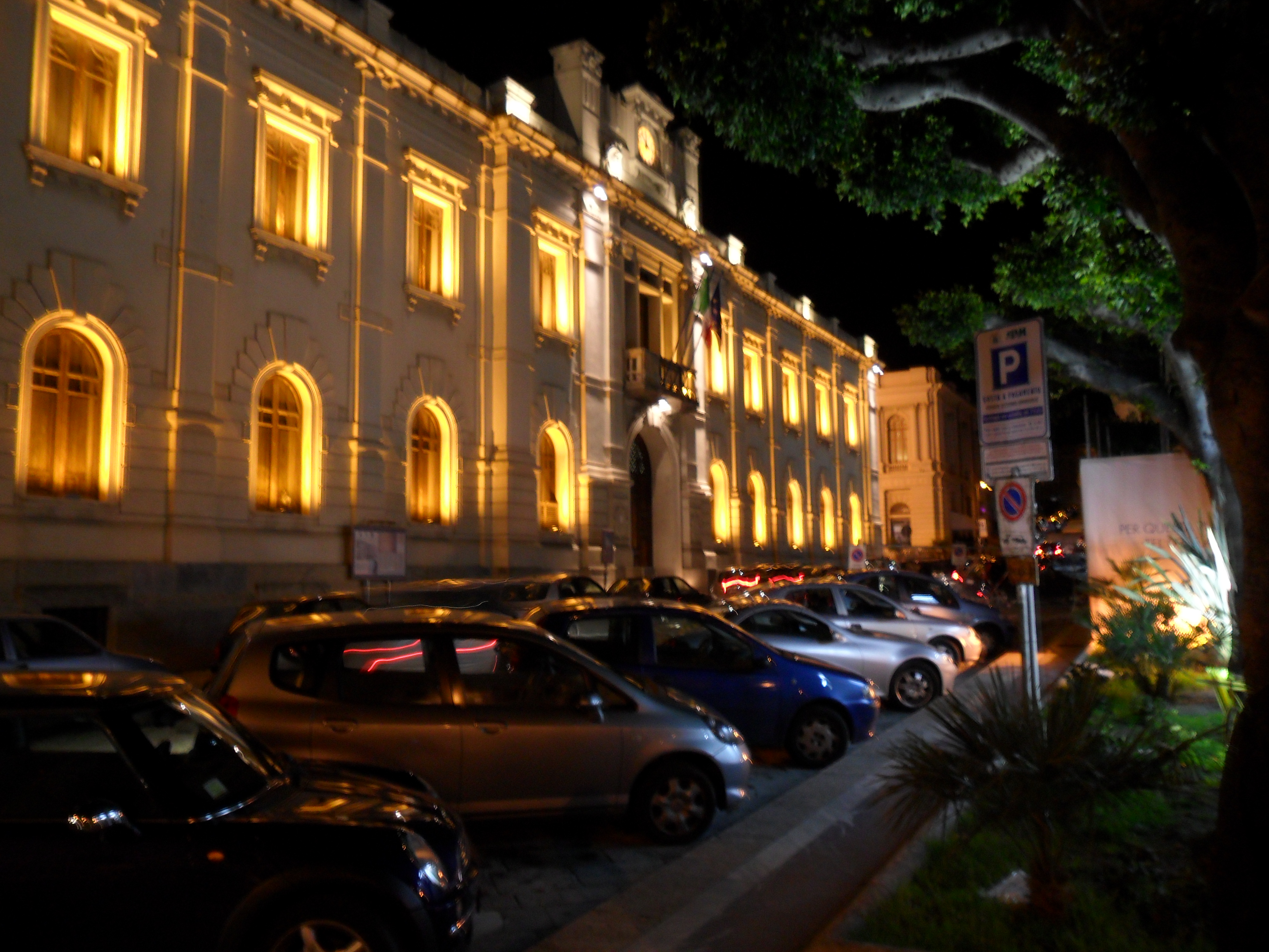 Municipality of Reggio Calabria lit